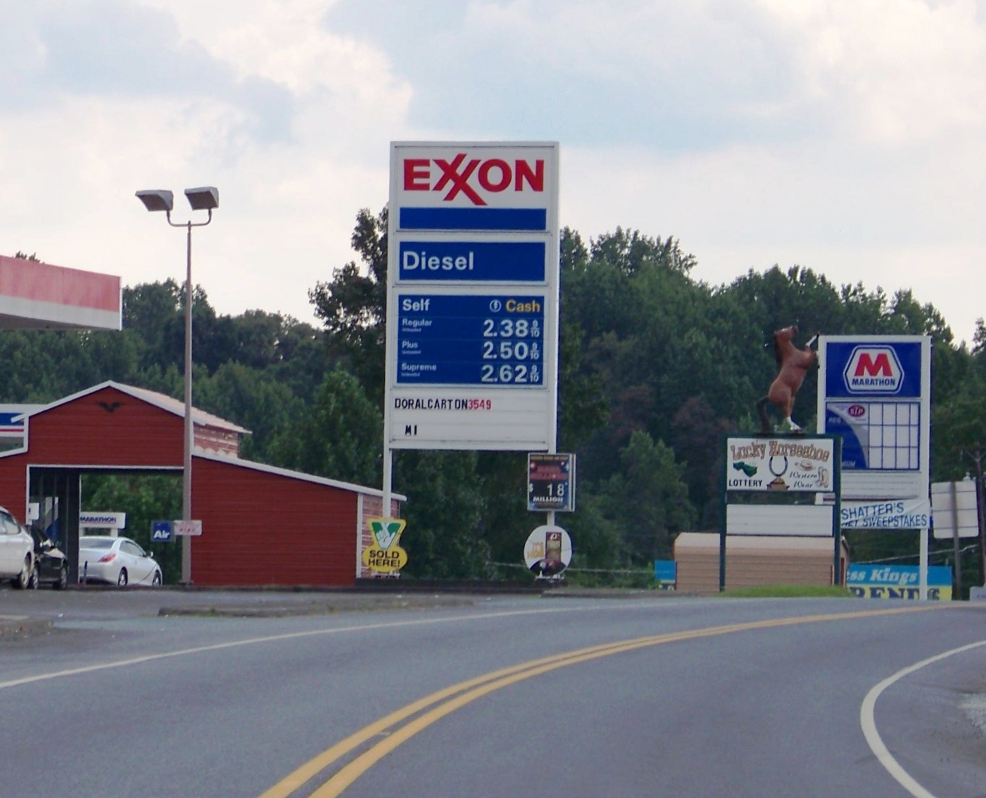 Lucky Horseshoe Lottery